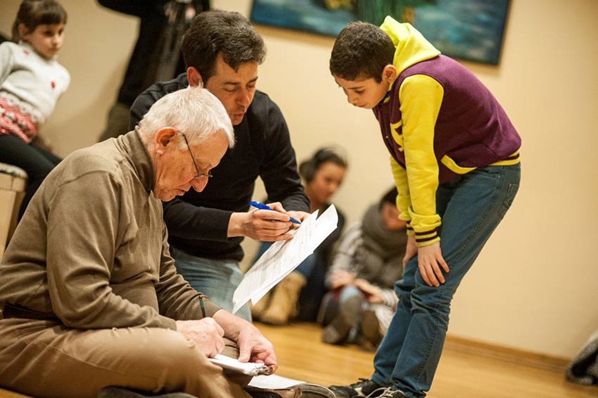 Heyme & Topchi exercising; Shakespeare